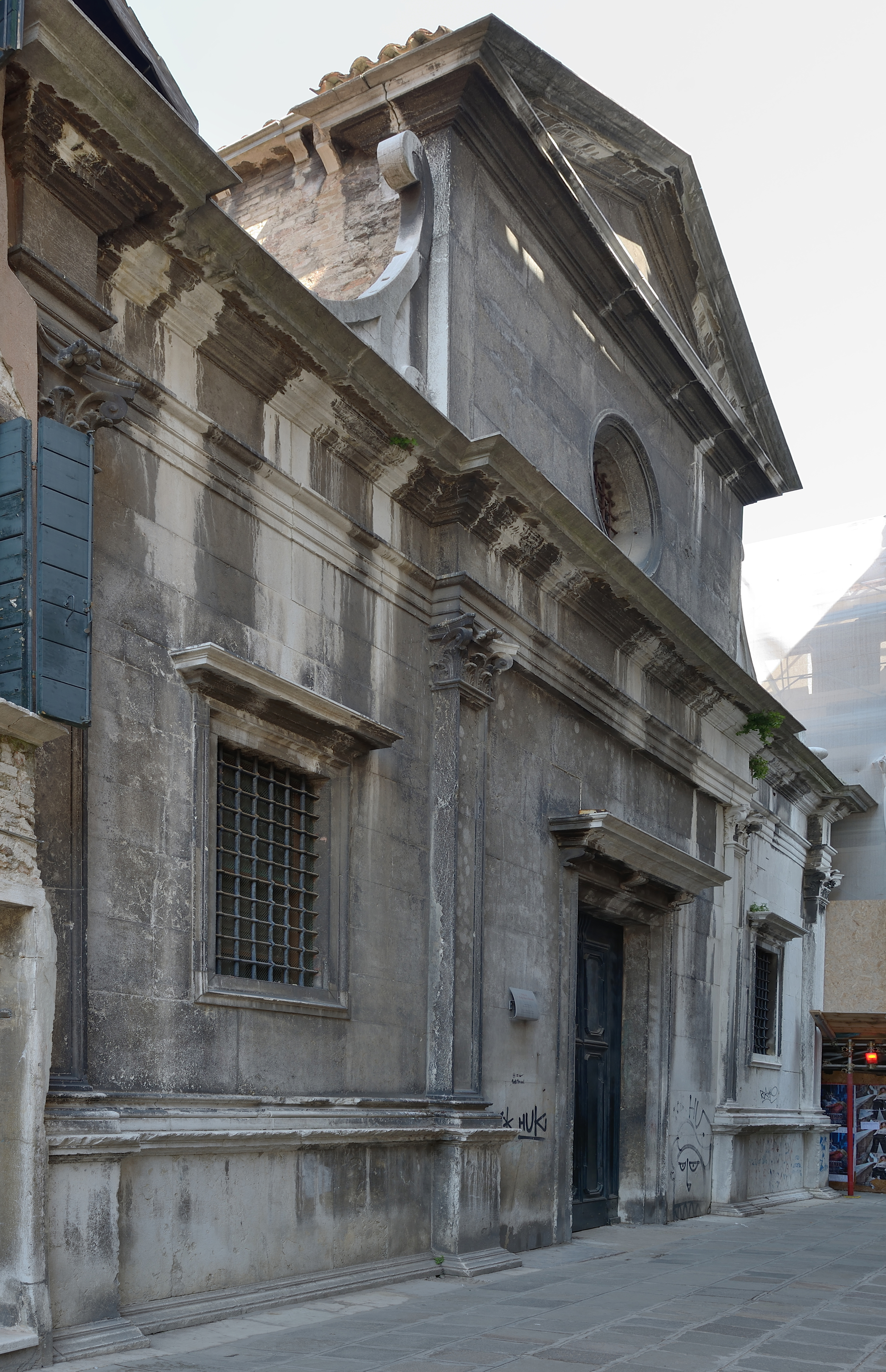 Church of Santa Maria Mater Domini in Venice.